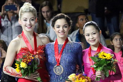 The ladies podium at the 2015 Skate America. From left: Gracie Gold (2nd); Evgenia Medvedeva(1st); Satoko Miyahara(3rd).